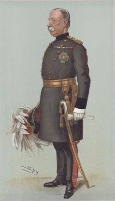 Caricature of Lt-General Sir Edwin Markham (????-1918). Caption read: "RMC".